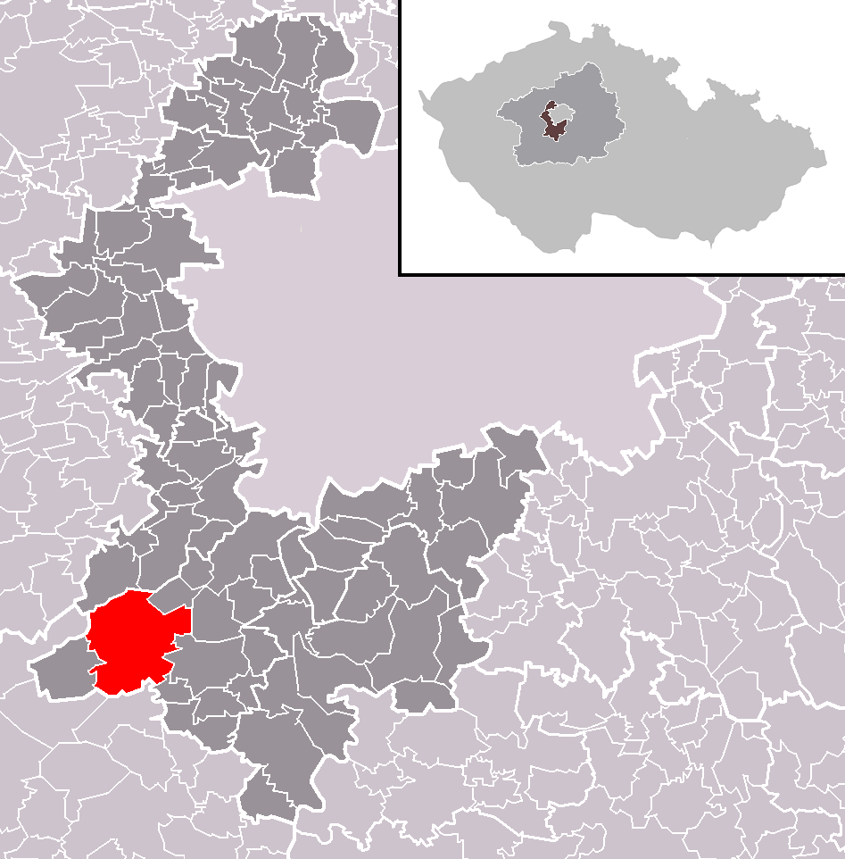 Location of Mníšek pod Brdy town within Prague-West District and administrative area of Černošice as a Municipality with Extended Competence.